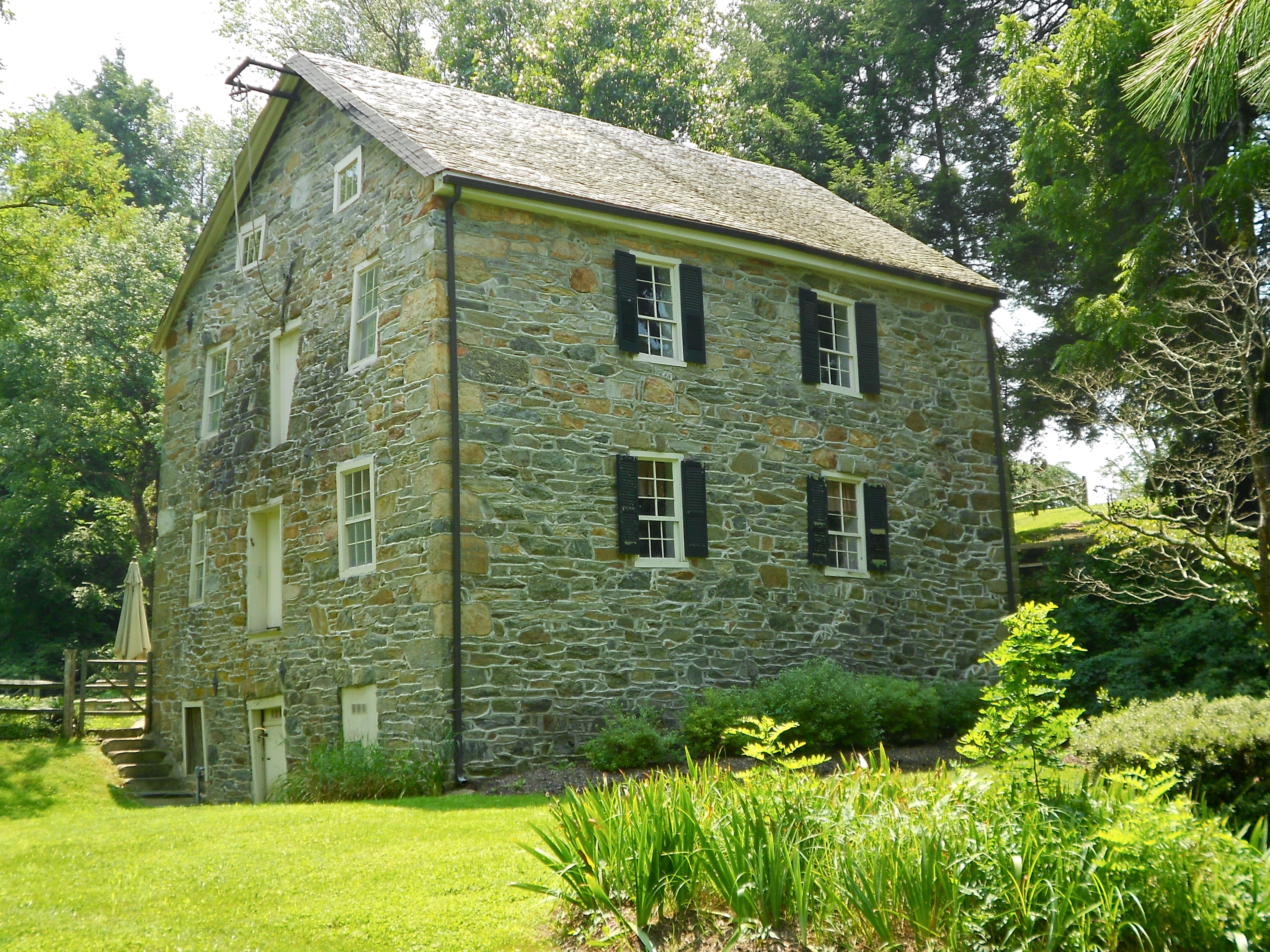 Mill Green Historic District, listed on the NRHP onJune 3, 1993. Located at the junction of Mill Green and Prospect Rds., near Street, Maryland. Up in the hills by a nice flat place on Broad creek. 10 historic buildings in the district, plus some new condo type buildings. This is the old mill building from 1820s